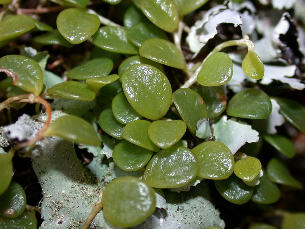 Bulbophyllum drymoglossum, (Orchidaceae) Japanese name: マメヅタラン Mamedzutaran Date;2008,04,05;Tanabe city, Wakayama prefecture, Japan Author;Keisotyo